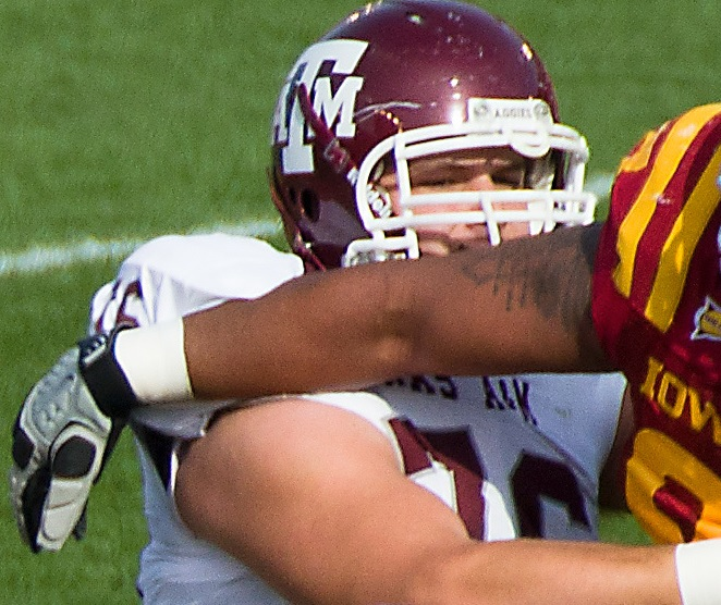 Texas A&M QB Ryan Tannehill scramblles against Iowa State defense.